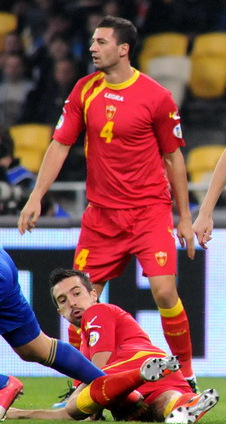 Montenegrin football player Milan Jovanović during 2014 World Cup qualifier against Ukraine